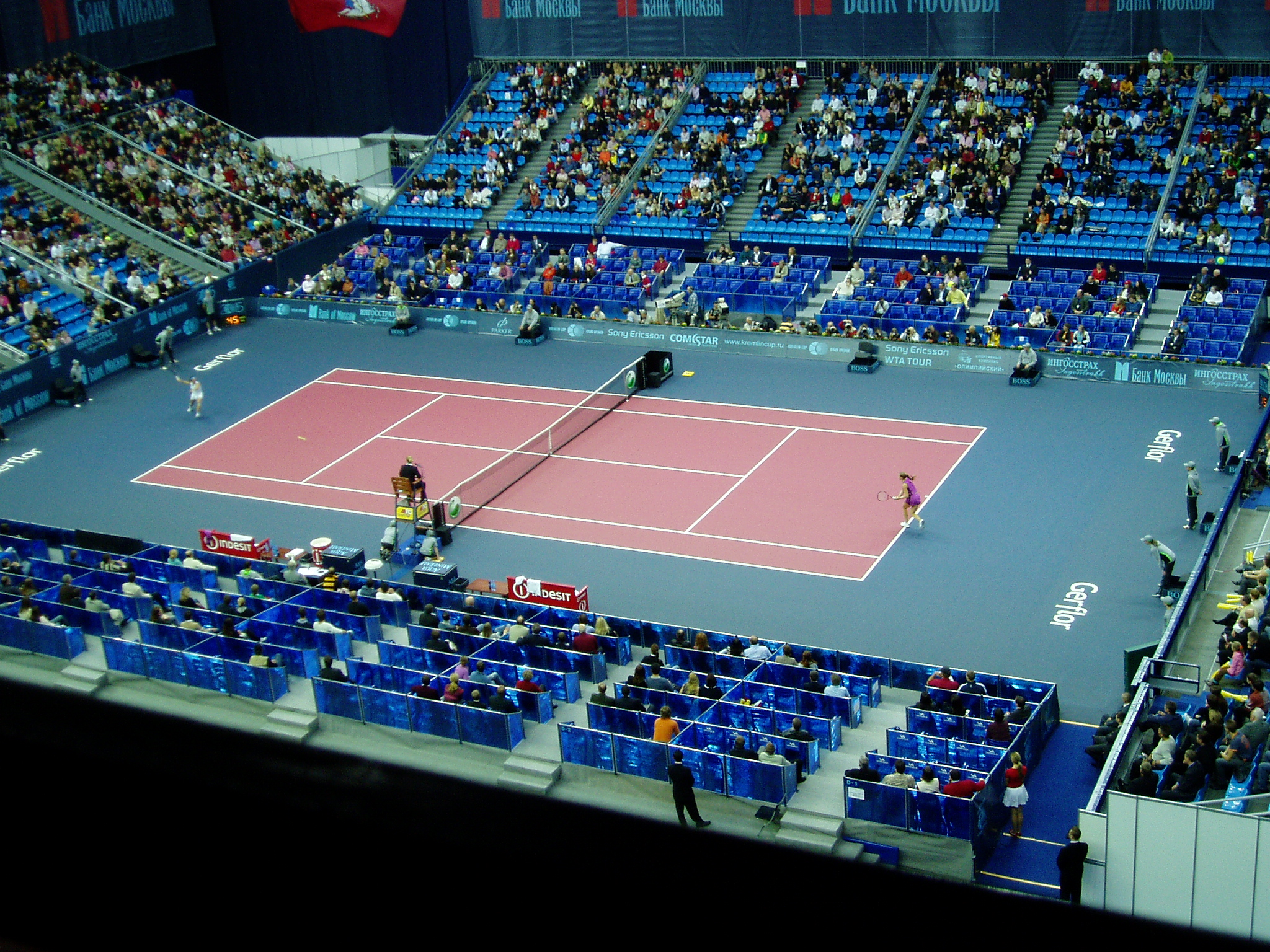 2005 Kremlin Cup – Women's Singles Final: Pierce (right) vs Schiavone (left)